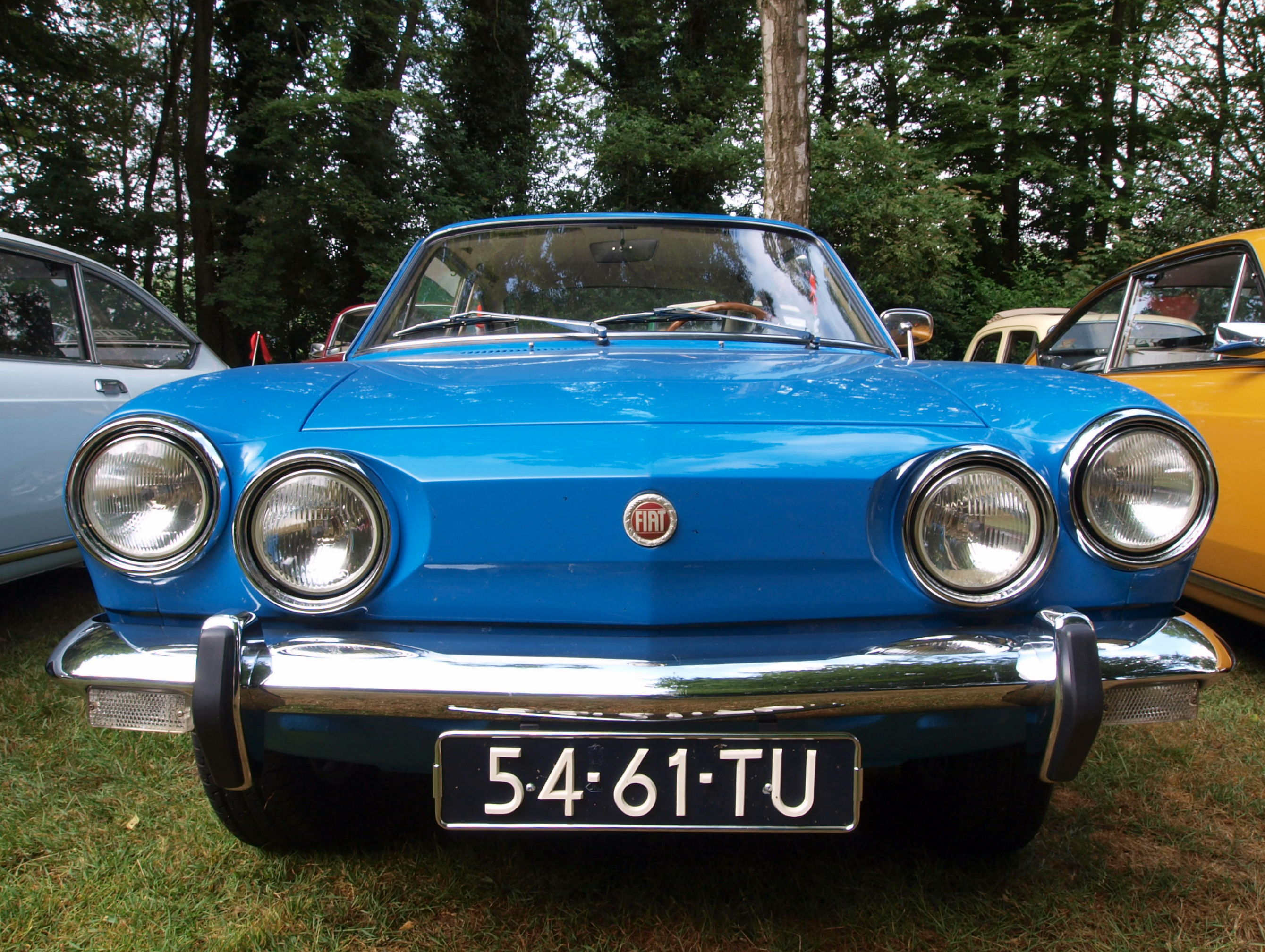 Fiat Sport 850 (1972)